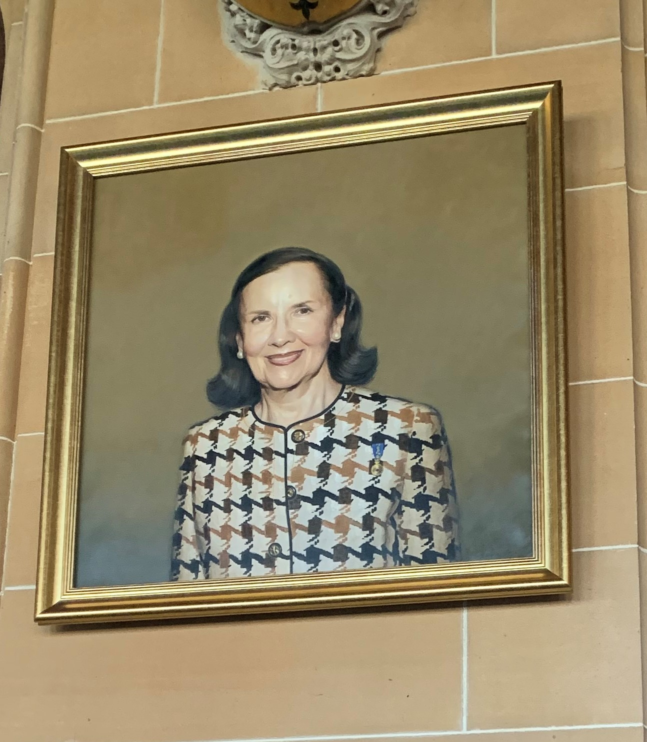 Portrait of Susan Wakil, painted by Tsering Hannaford in 2019, hangs in MacLaurin Hall, the University of Sydney